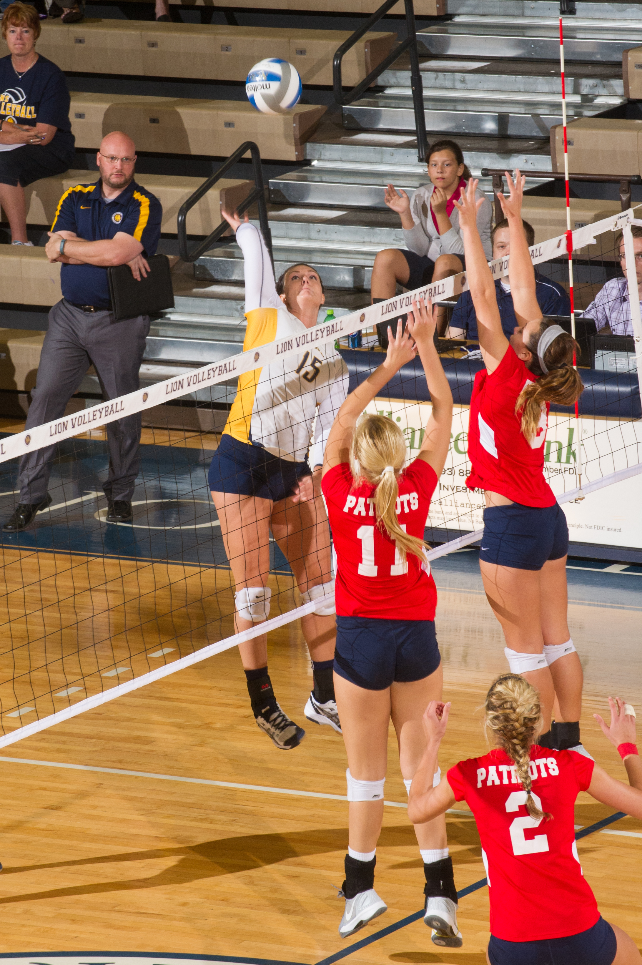 VB vs DBU-4578.jpg 2013–14 Texas A&M–Commerce Lions women's volleyball team